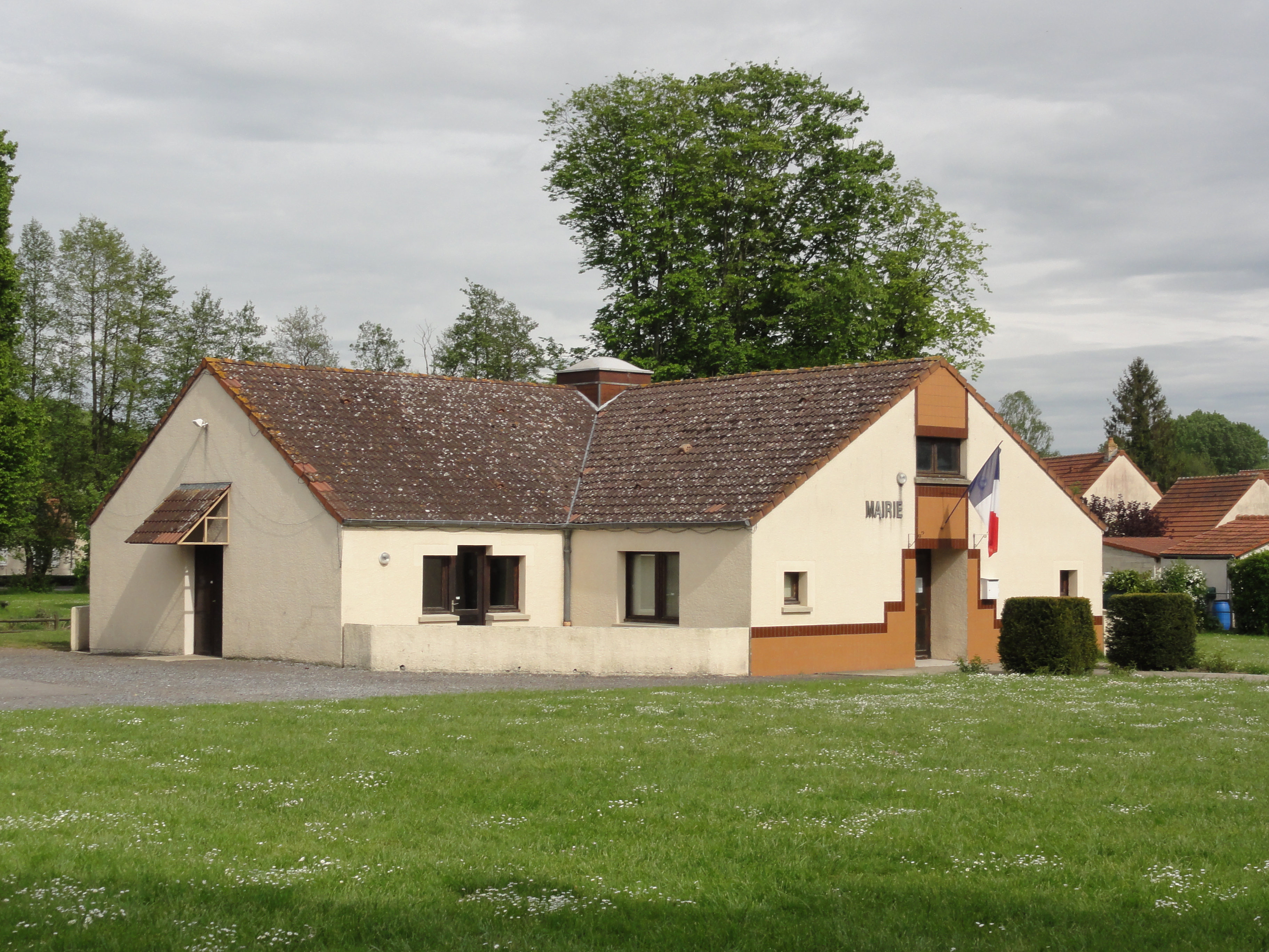 Eppes (Aisne) mairie